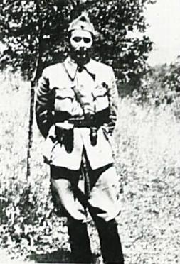 Ivan Kavčič-Nande (1913-1943), Slovene partisan.